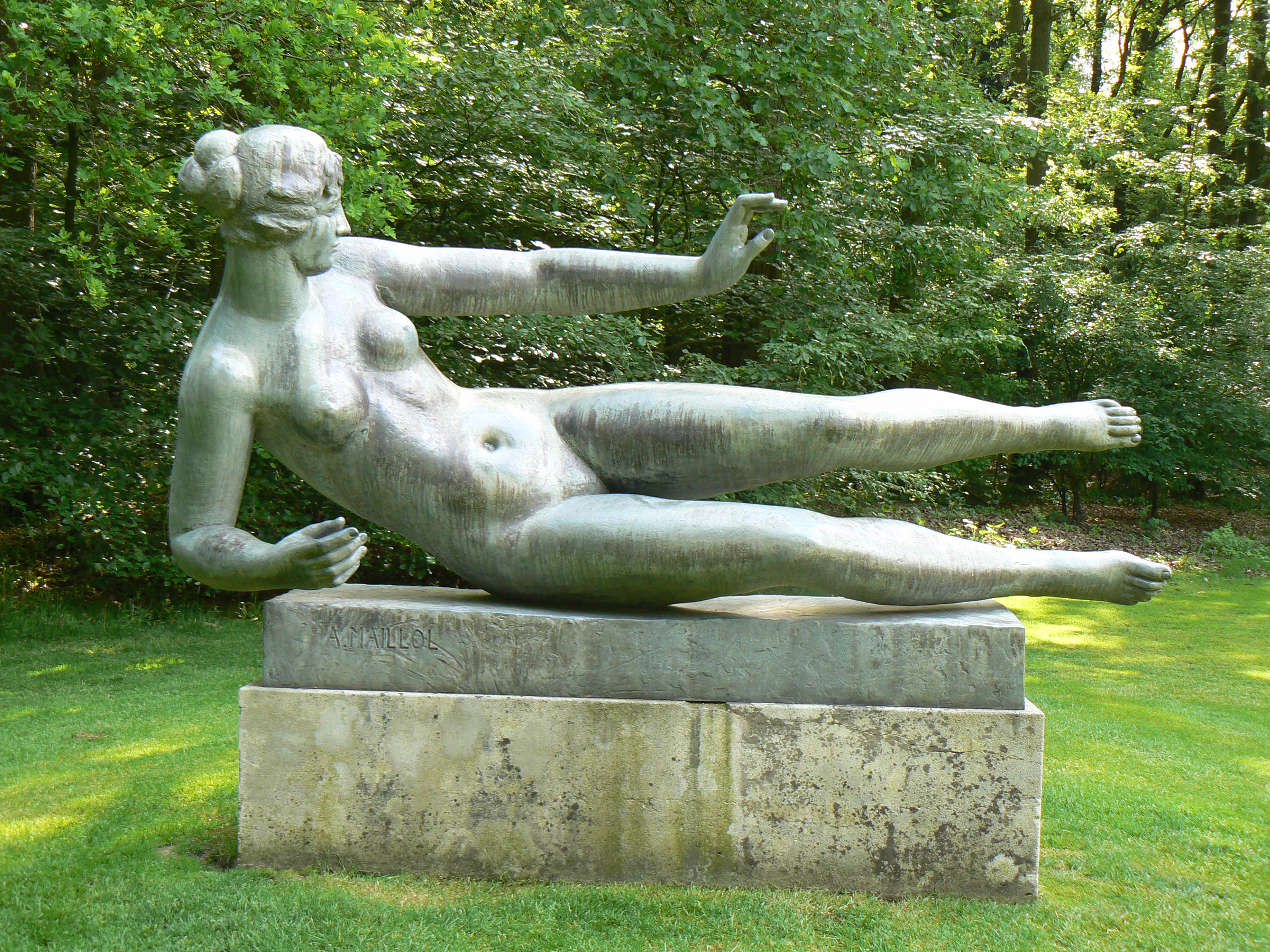 Sculpture L'Air (1939) by Aristide Maillol in KMM sculpturepark/The Netherlands.